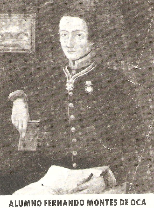 Personajes de la Historia Nacional